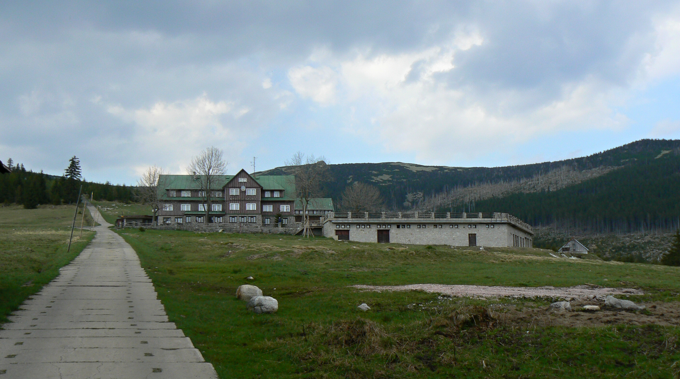 One of the huts (Medvědi bouda) in Krknoše (on Giant Mountains) national park